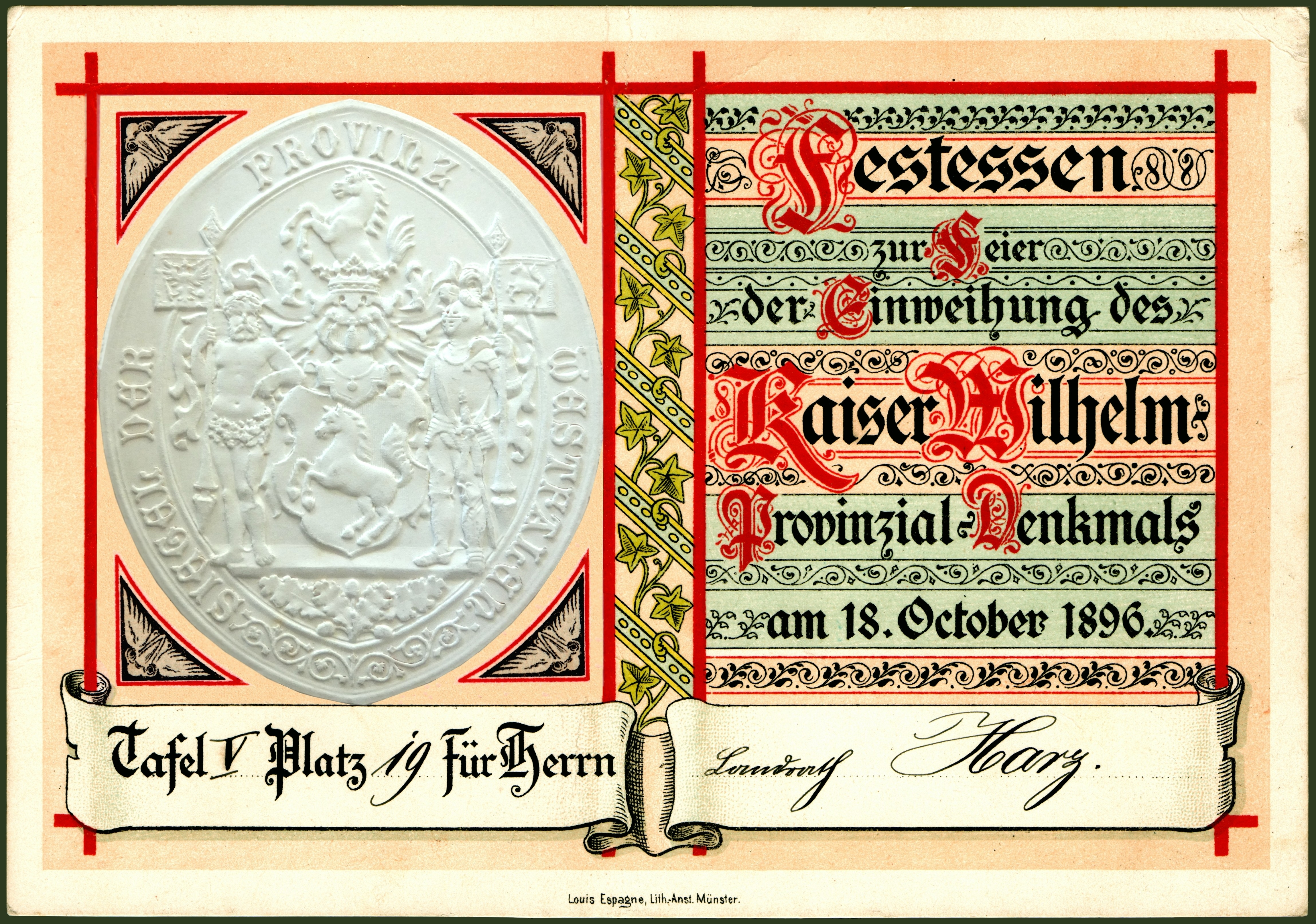 Place card for "Landrath Harz" for the banquet at the inauguration of the Emperor William Monument, in the Kaiserhof, Porta Westfalica, Germany on October 18, 1896, size: 193 mm x 134 mm.